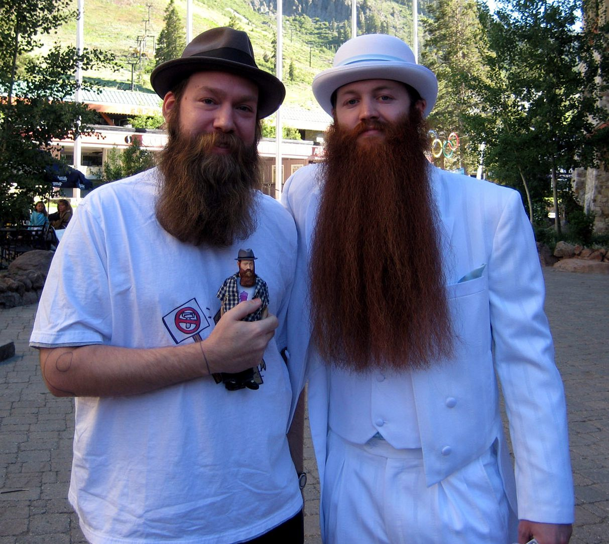 George & Jack Passion at 2008 High Sierra Beard & Mustache Championships